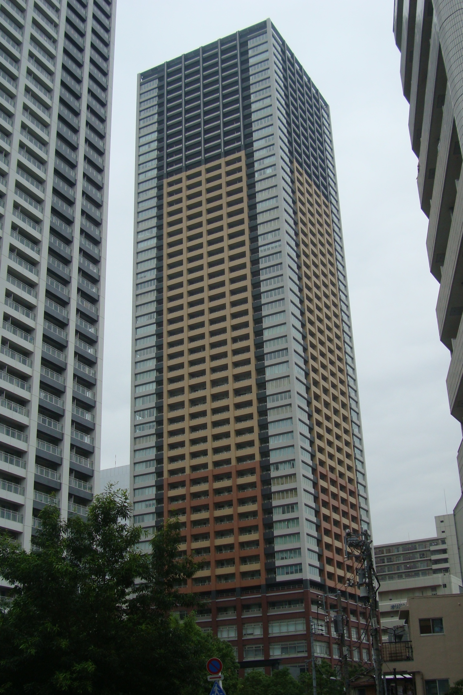 Owl Tower in Ikebukuro. The tallest apartment building in Tokyo.